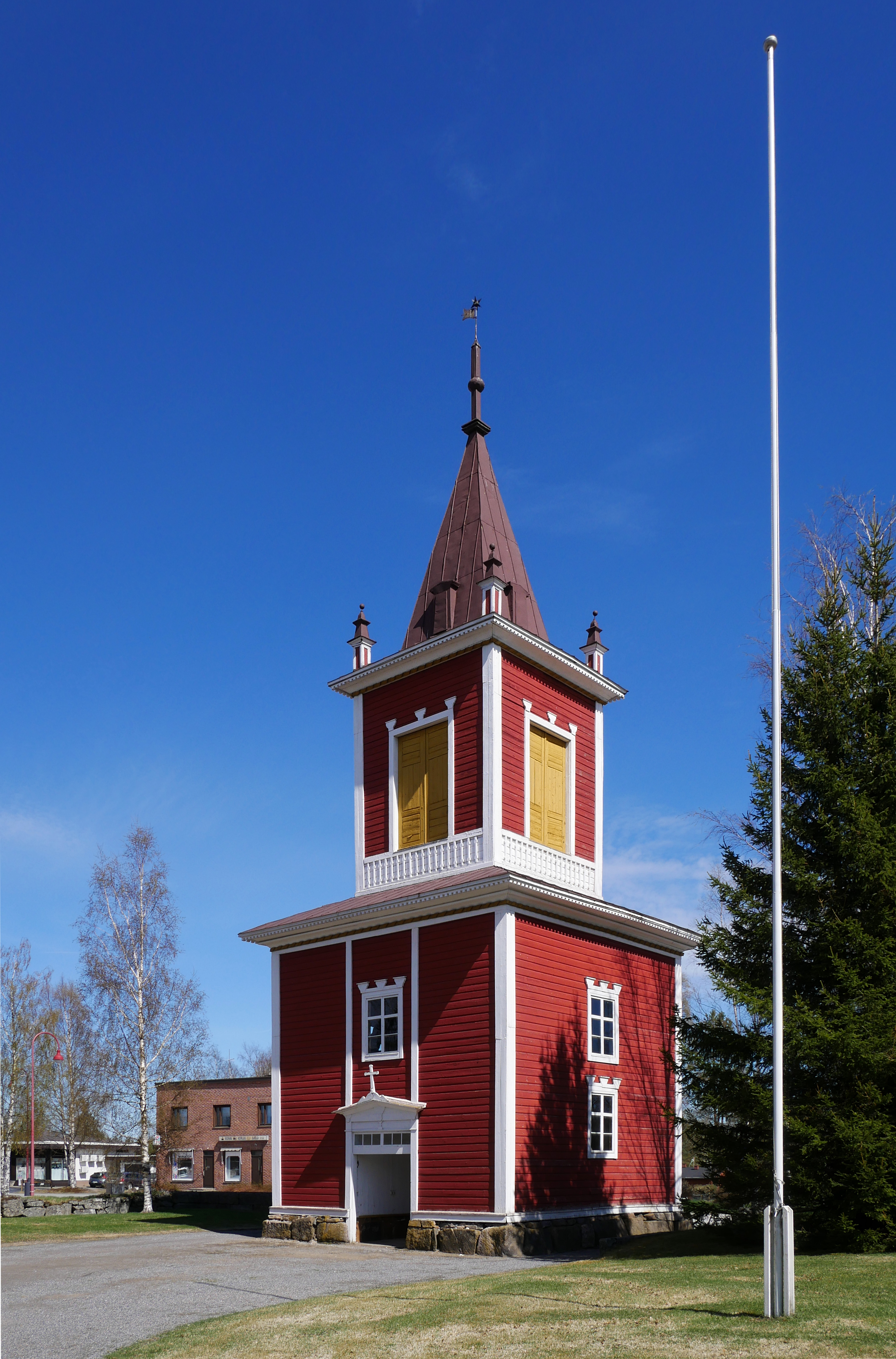 Kortesjärvi bell tower 2017.